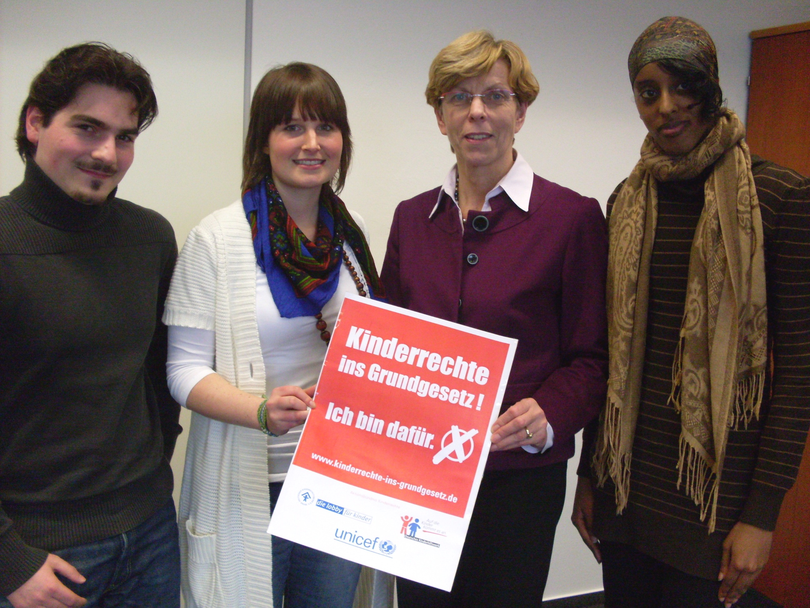 Senatorin Rosenkötter